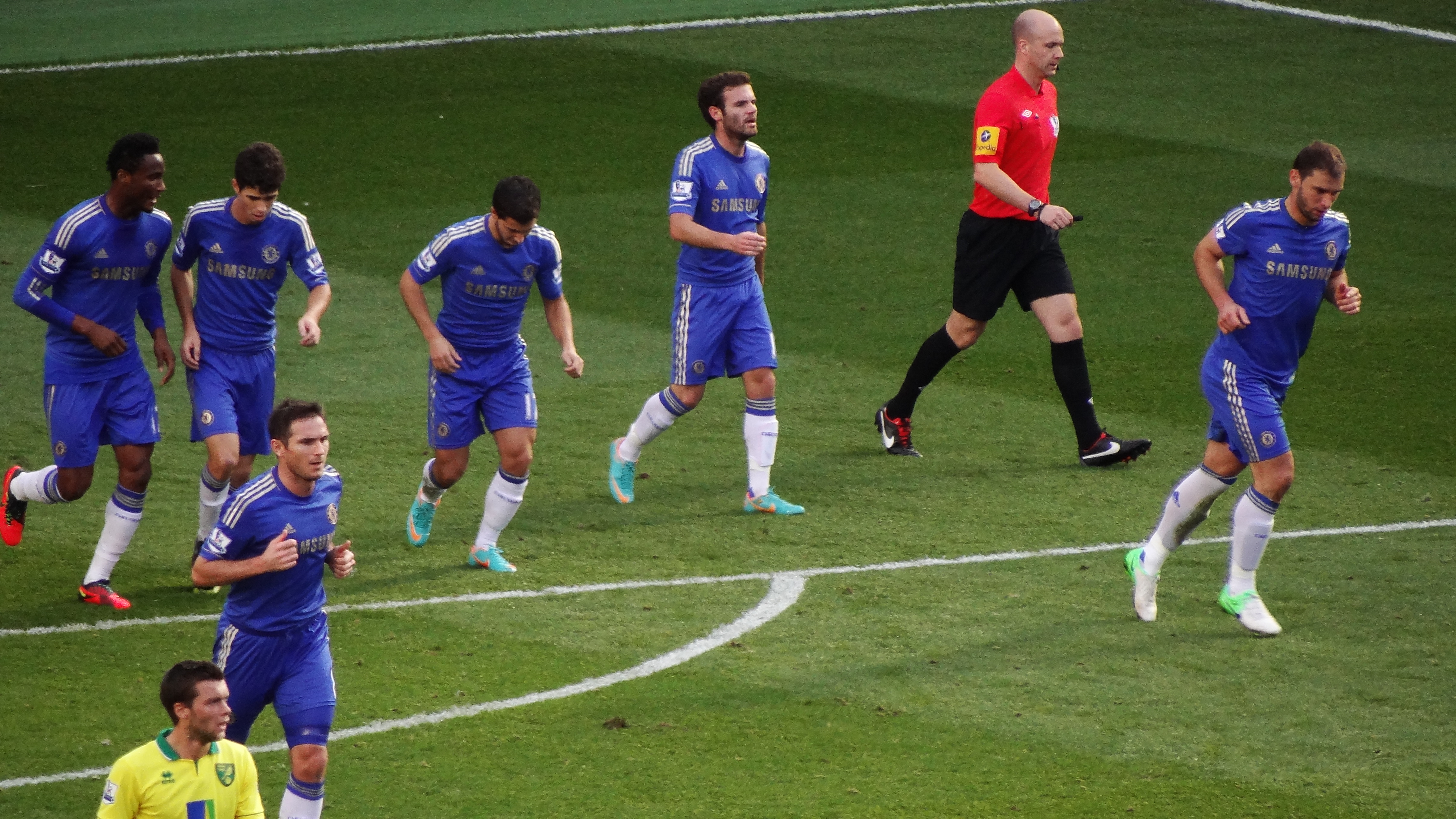 Chelsea players' returning to their own half after scoring their third goal against Norwich City in the Premier League